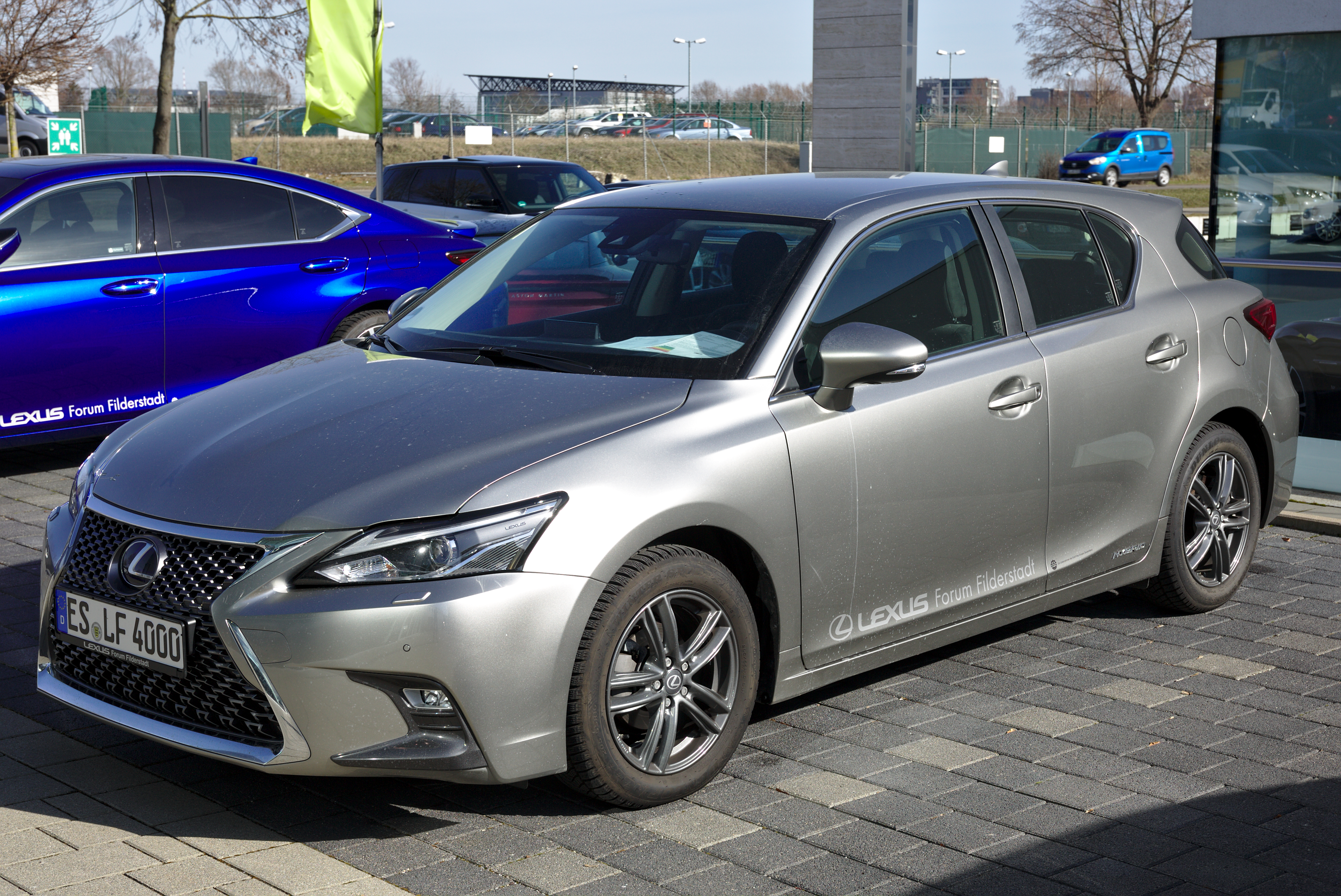 Lexus CT 200h in Filderstadt